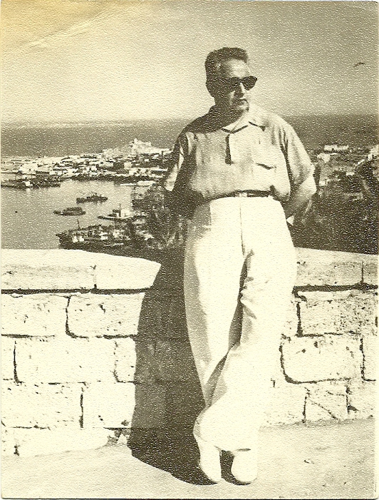 Г.К.Алиев. Баку.Лето.